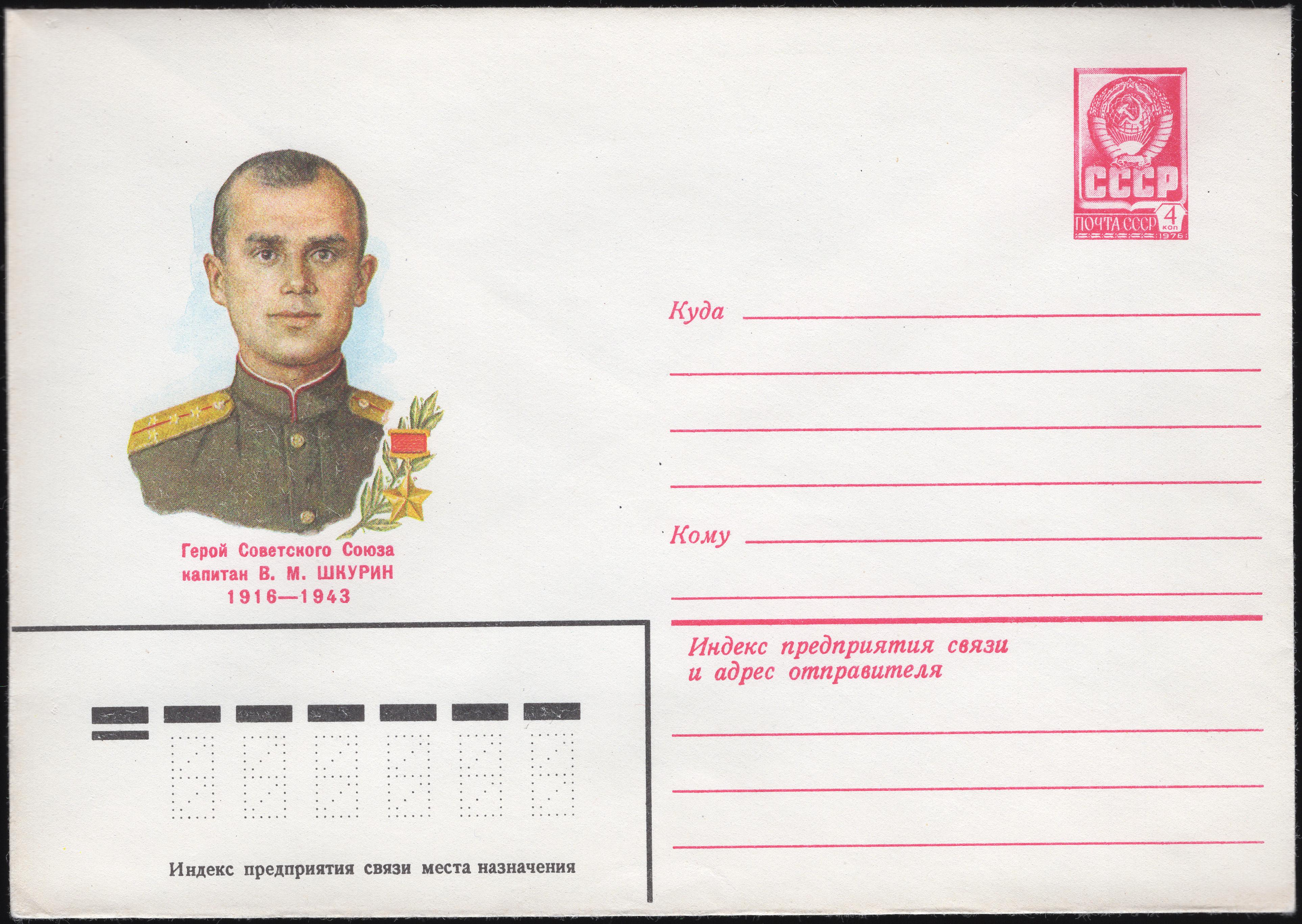 Hero of the Soviet Union Captain Vasily Shkurin. 1916-1943. Series: Heroes of the Soviet Union. Artist Karpov V.